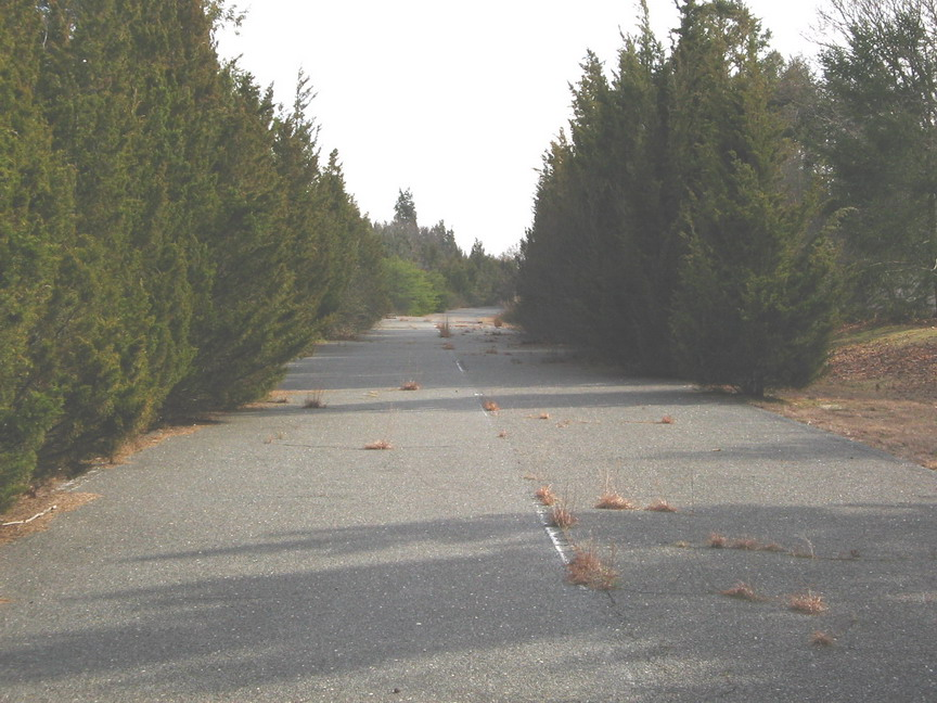 Old alignment near Beesley's Point